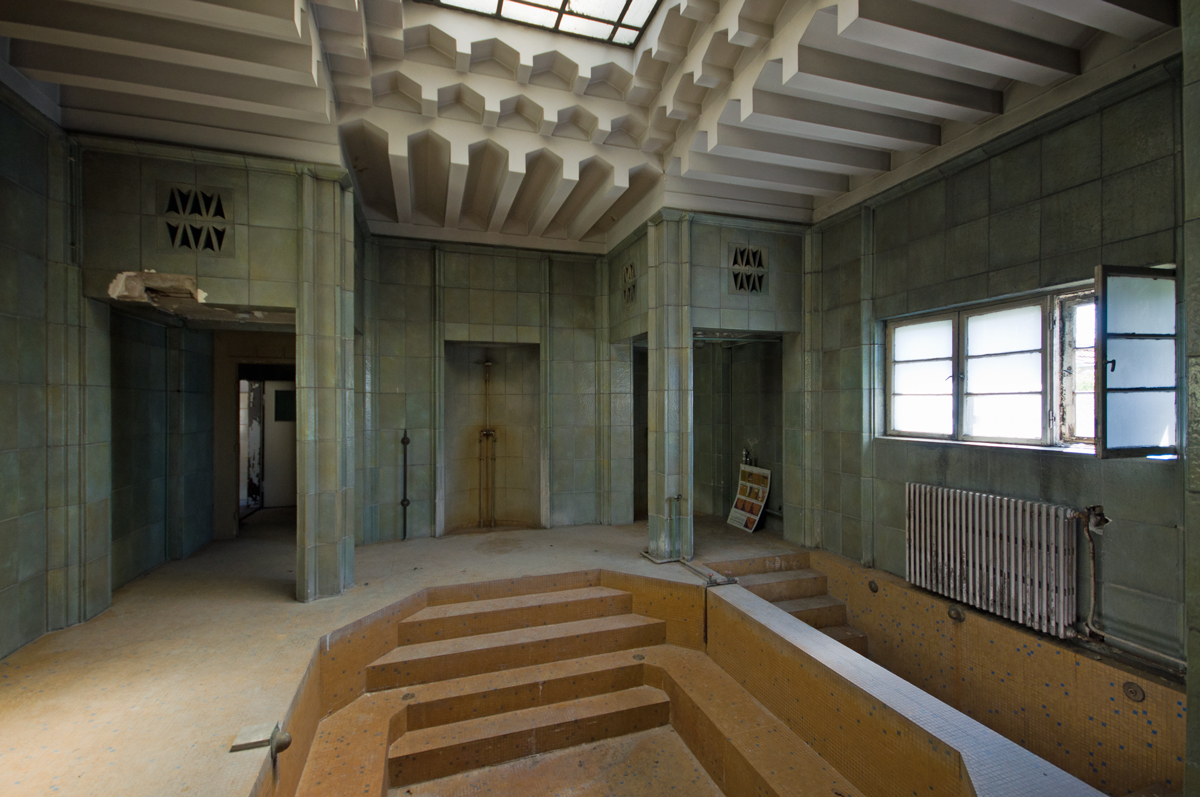 Cold-water pool in sauna area of Stadtbad Lichtenberg, built in mid-1920's and closed in 1991.